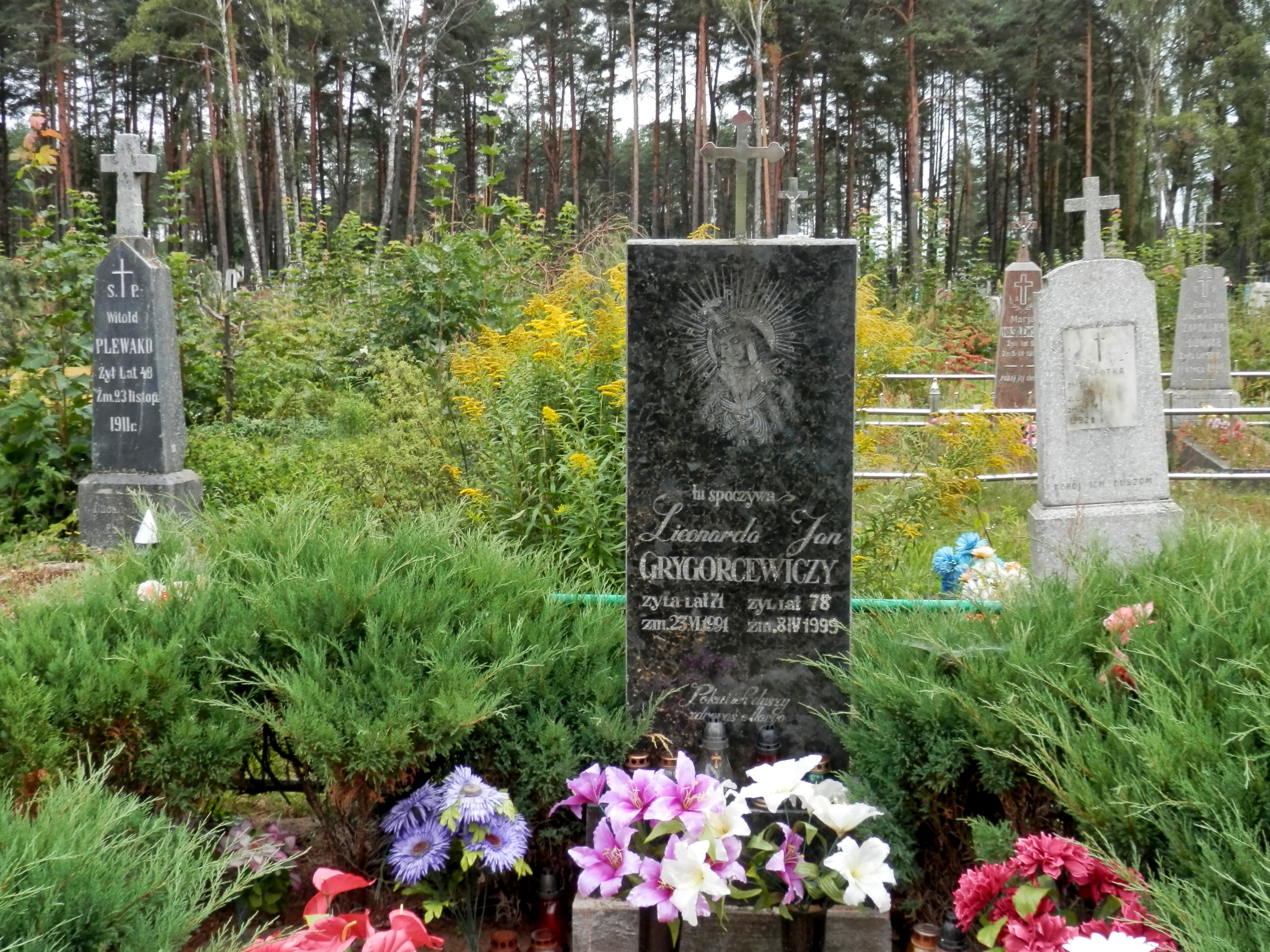 Cemetery + Franciscan Church of Saint Alex. Ivyanets, Belarus